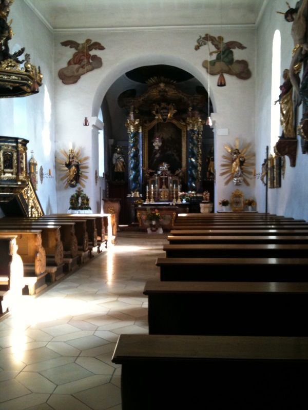 Inside the Roman Church St. Margaretha in Pettendorf in Bavaria.